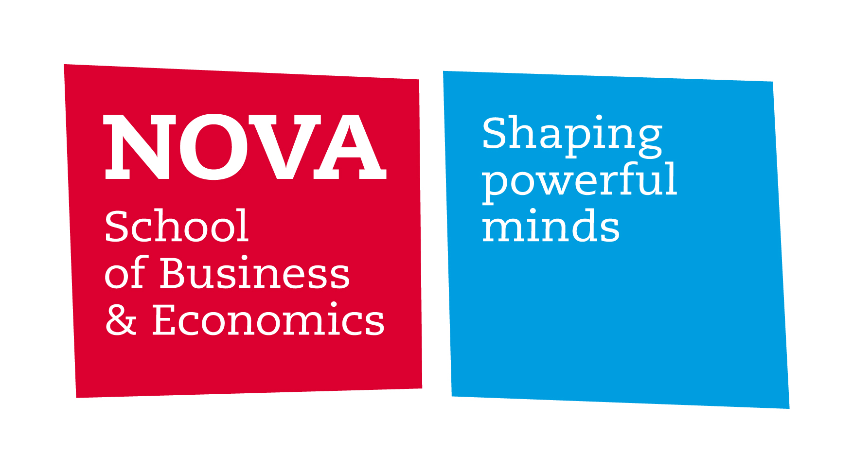 Logo of the Nova School of Business and Economics in Lisbon, Portugal